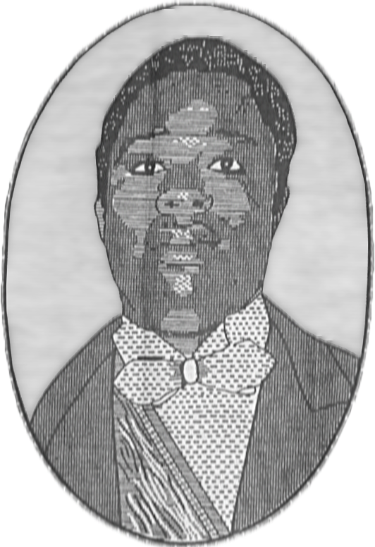 David Dacko CAR, likely in the post Bokassa terms , c. 1979-80. Made in Nigeria, with tag and selvage Zamani textiles. A variant of the one in the Bernard Collet collection